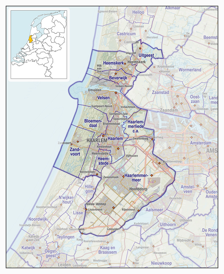 Map of the Dutch Safety Region, with an impression of the terrain and the municipal borders as of 1-1-2017.